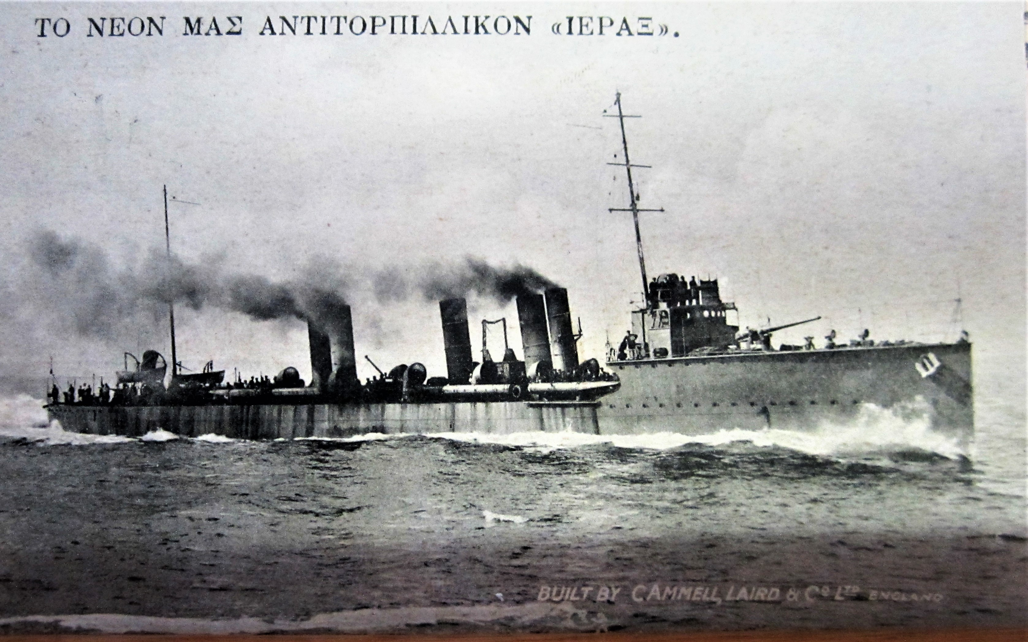 Greek destroyer Ierax (1911)